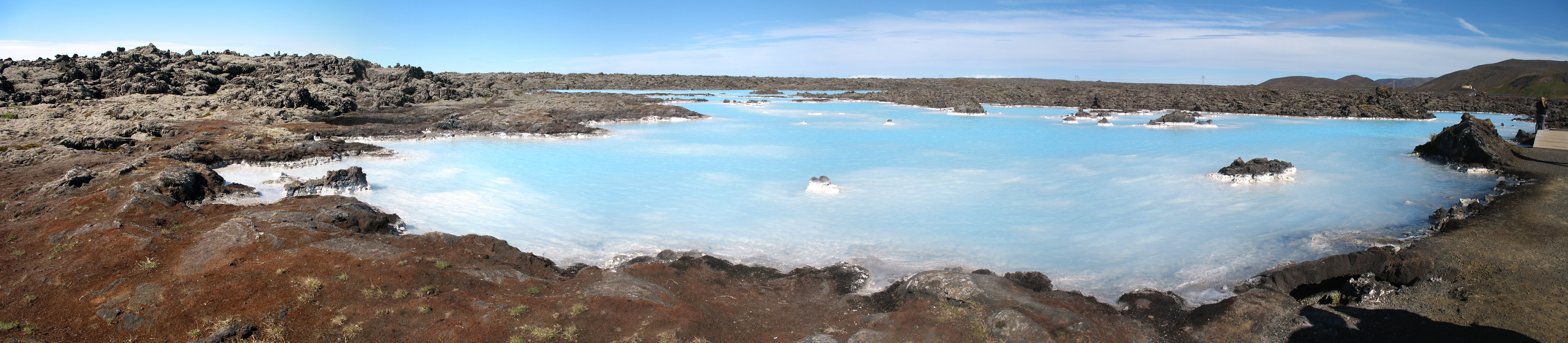 Iceland, outside blue-lagoon